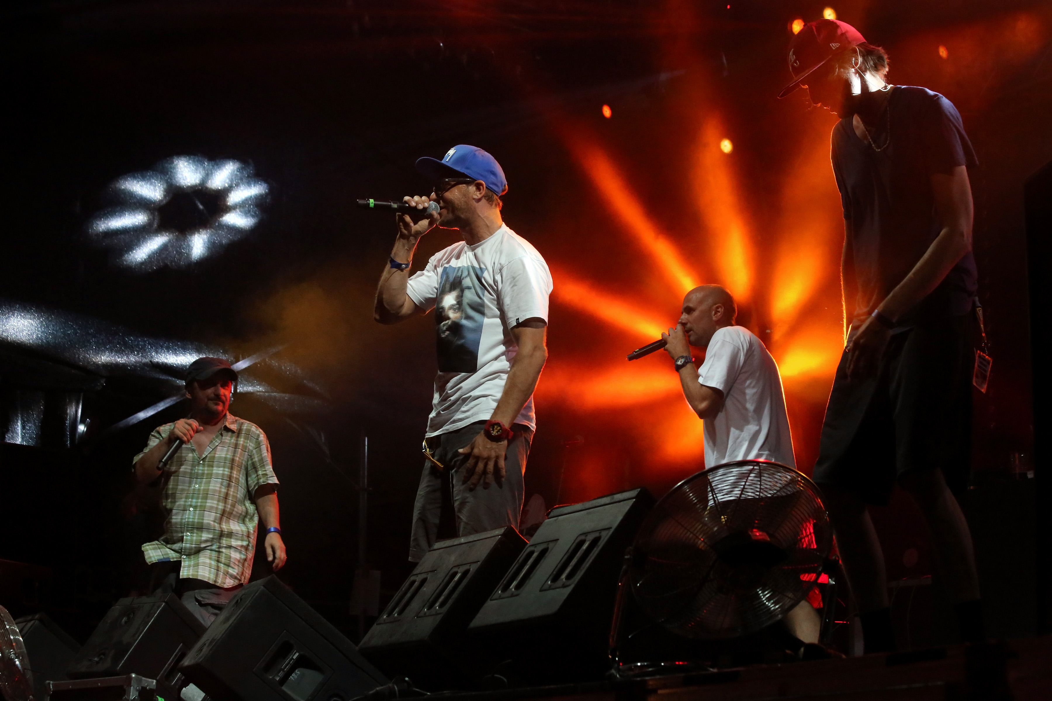 Texta feat. SK Ambassadors - Donauinselfest 2013 in Vienna, Austria